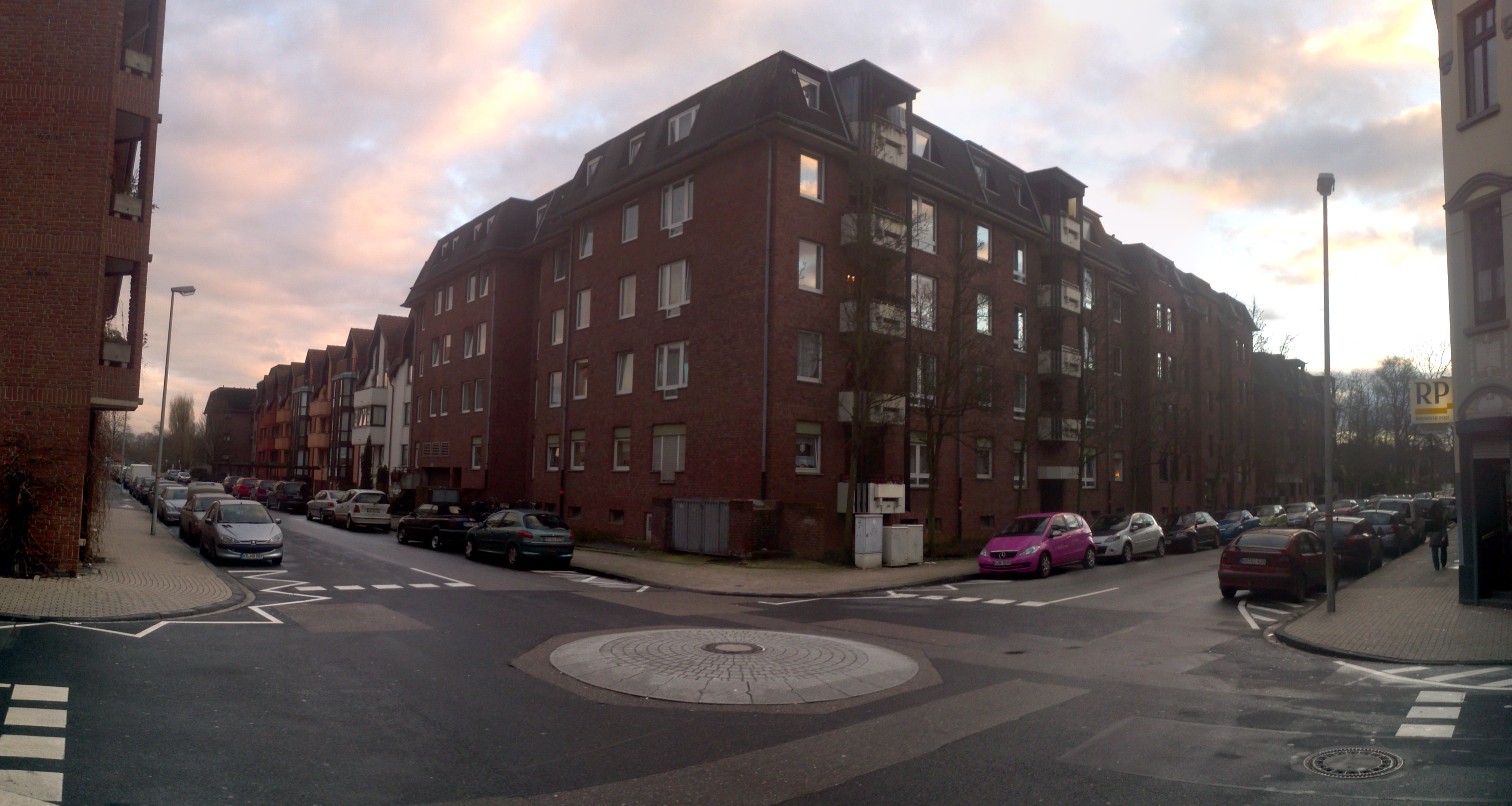 Krefeld; Vennfelder Weg (left); Spinnereistraße (right)